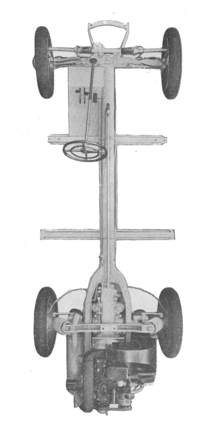 Plan view of the rear-engine Mercedes (Autocar Handbook, 13th ed, 1935).jpg